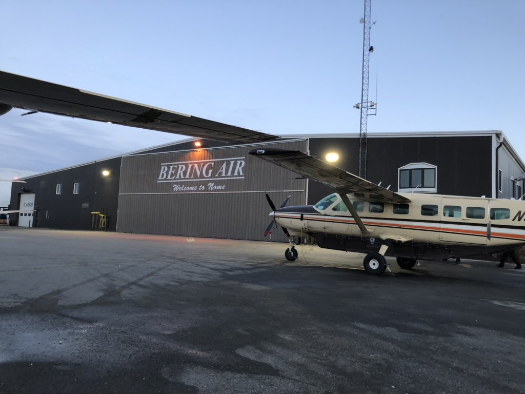 Great flight into Nome!